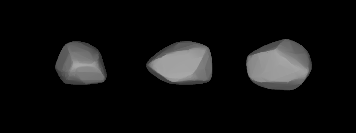 A three-dimensional model of 312 Pierretta that was computed using light curve inversion techniques.